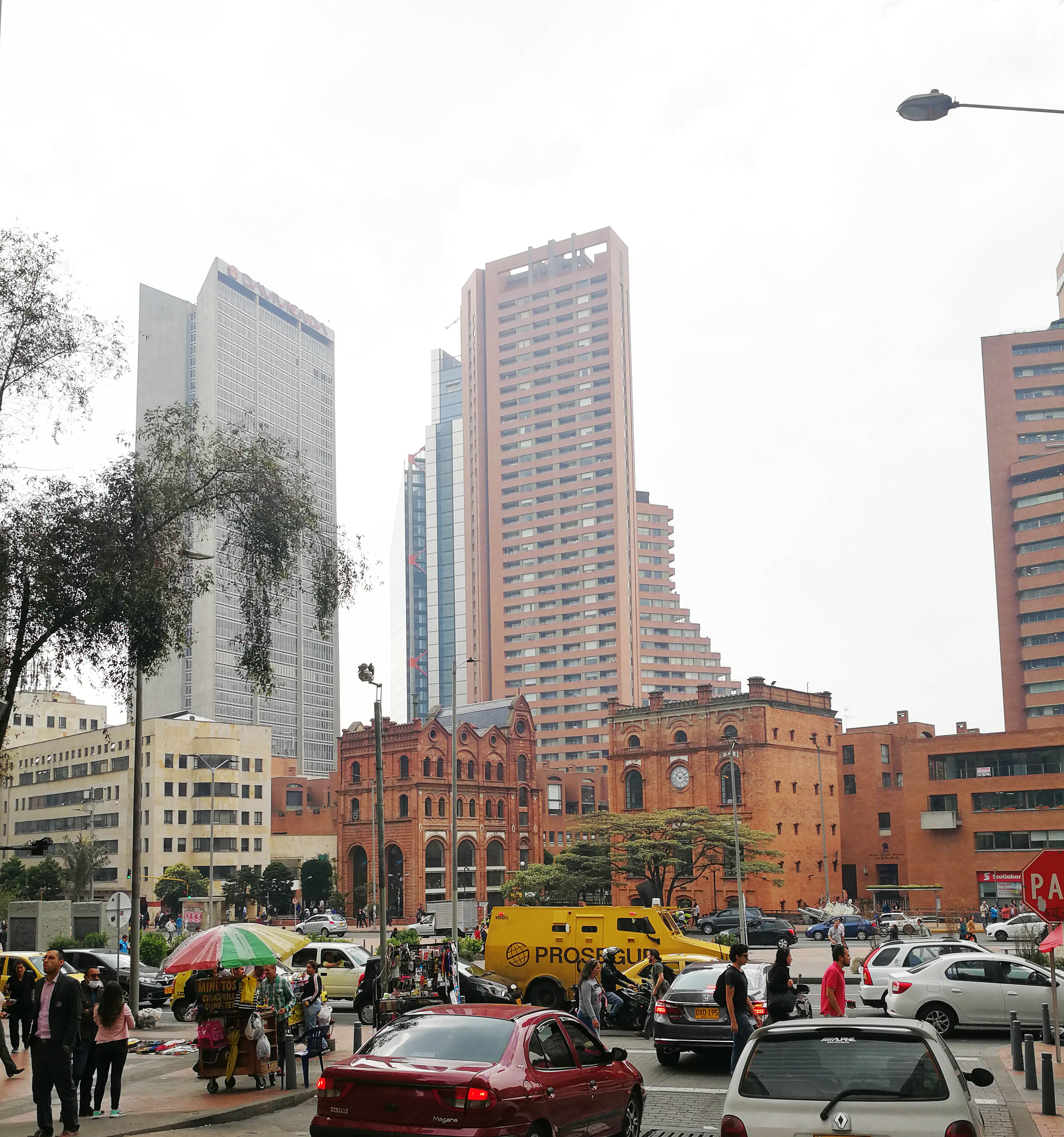 International Center, Bogotá.